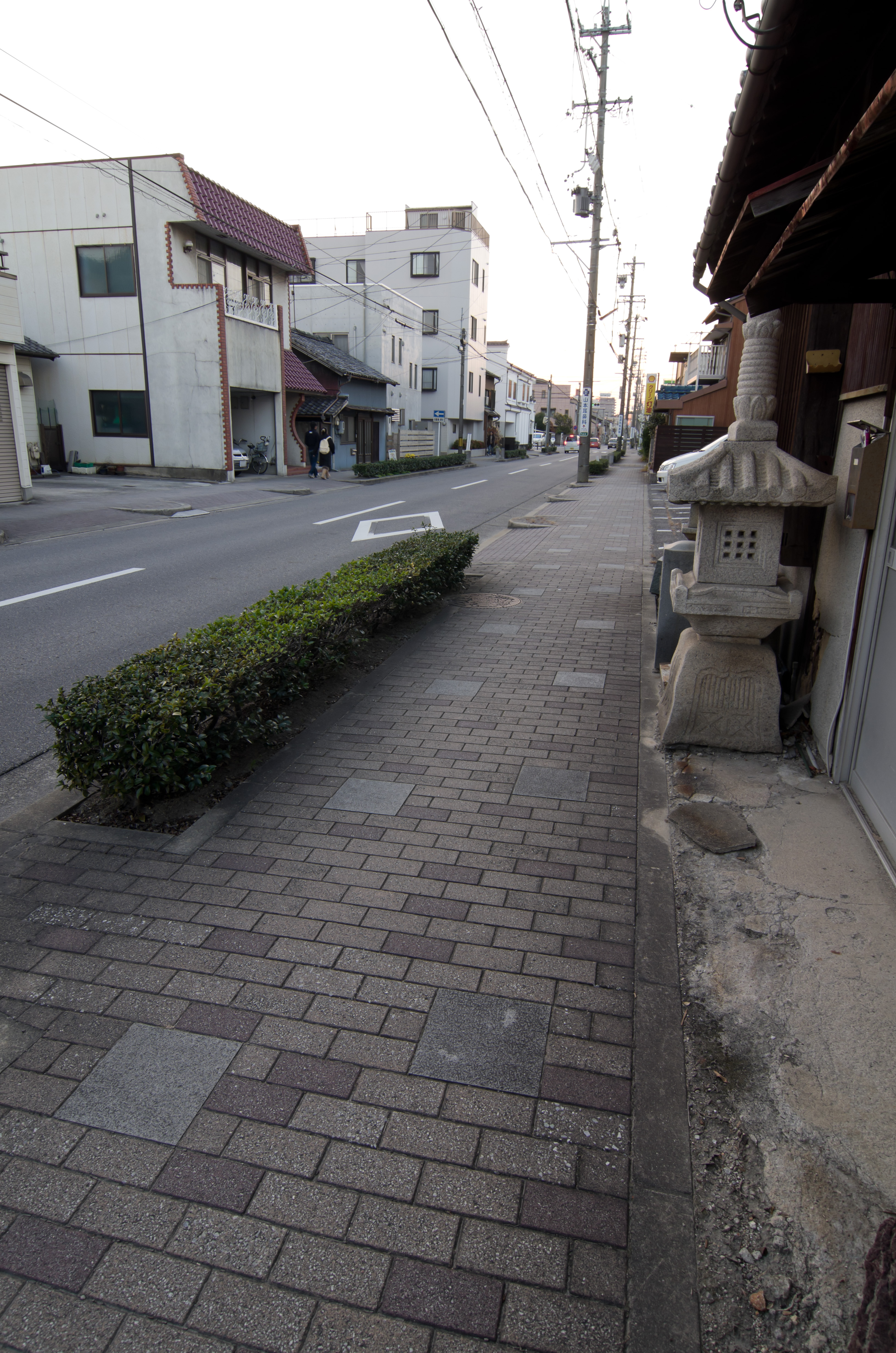 Ishiyamachi-dori (En:Stone dealer's street) in Okazaki, Aichi, Japan. A granite is buried in sidewalk.